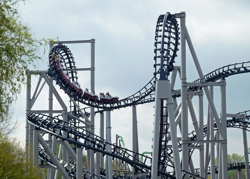 Xpress is a steel rollercoaster in Walibi Holland, Biddinghuizen.